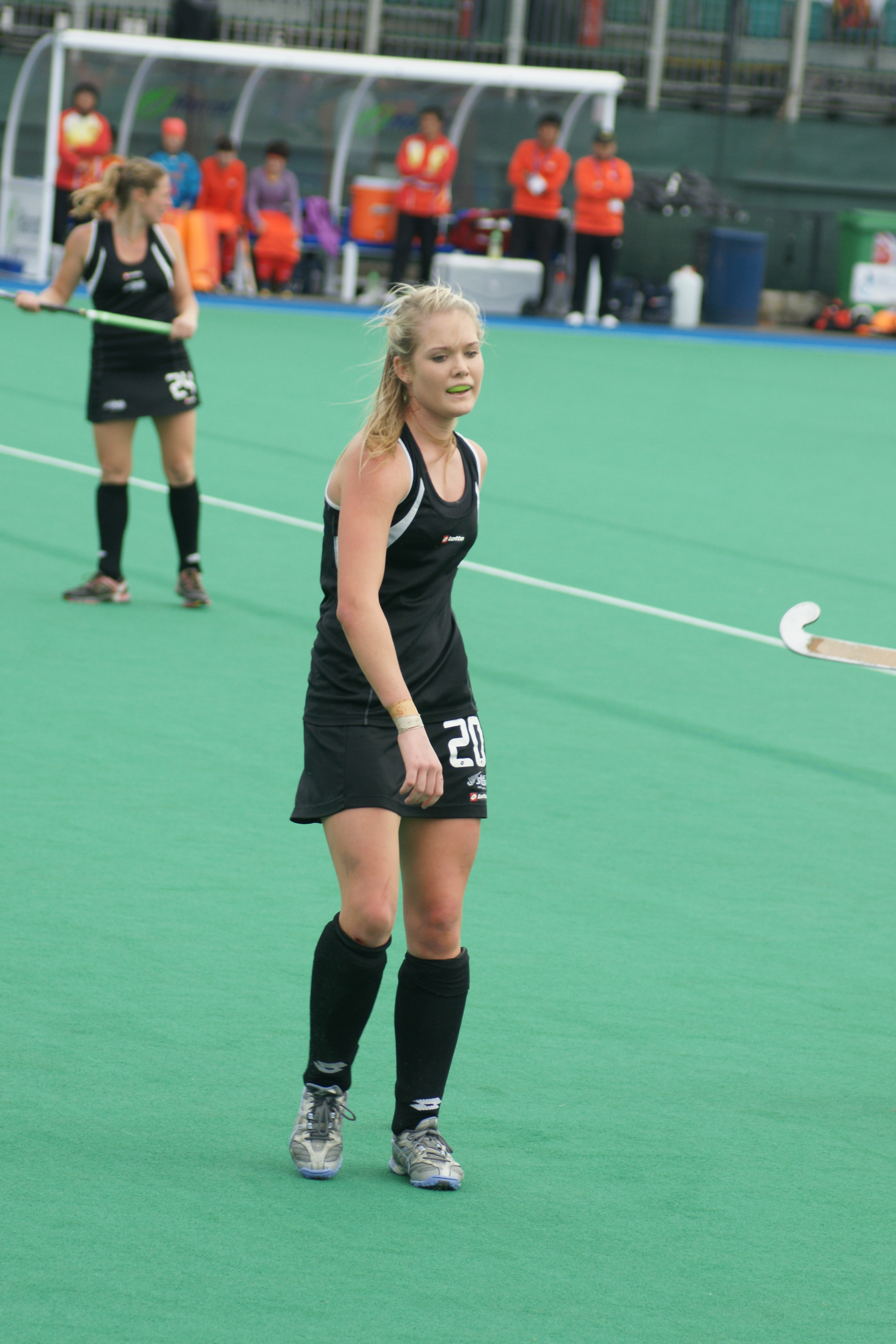 Samantha Harrison of the New Zealand women's national field hockey team, against China on 18 July 2009.